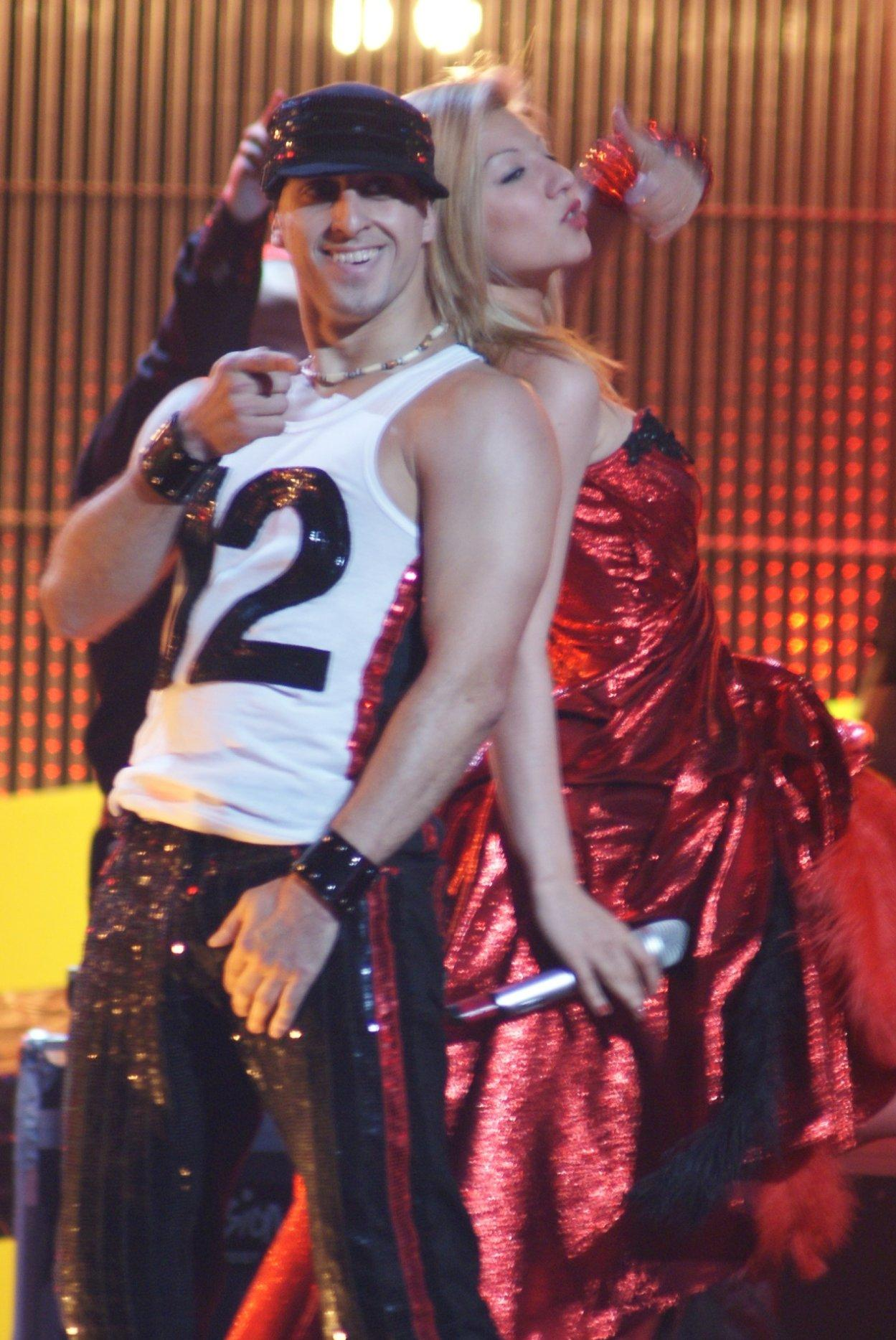 Bulgarian entry in the Eurovision Song Contest - Belgrade 2008.